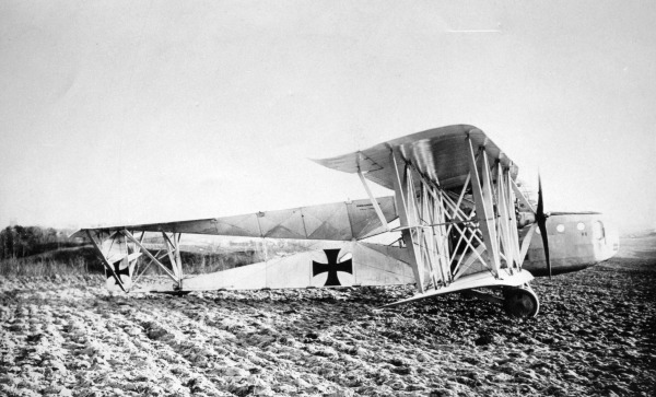 PictionID:43639291 - Catalog:16_004664 - Title:SSW (Siemens-Schuckertwerke) R VI 6/15 - Filename:16_004664.TIF - - - - - - - Image from the Ray Wagner Collection. Ray Wagner was Archivist at the San Diego Air and Space Museum for several years and is an author of several books on aviation --- ---Please Tag these images so that the information can be permanently stored with the digital file.---Repository: San Diego Air and Space Museum